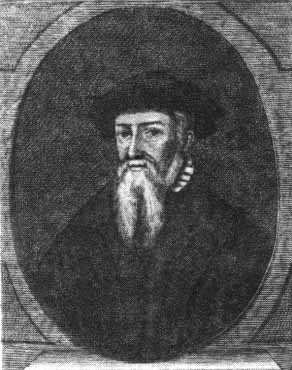 Portraits of alchemists and hermetic philosophers Valentin Weigel [1533-1588]